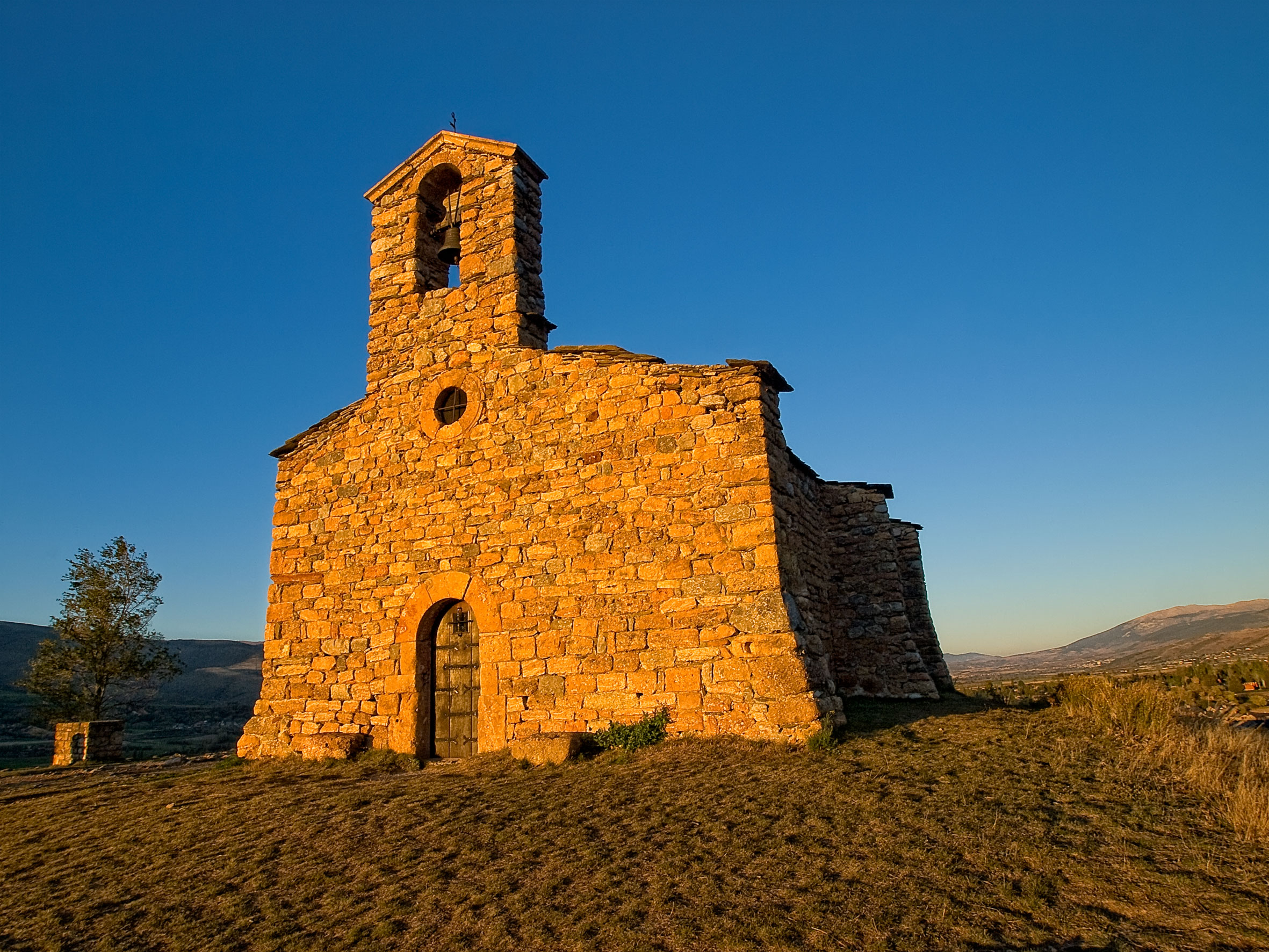 Sant Salvador de Pedranies church in Prats i Sansor (Cerdanya, Spain)